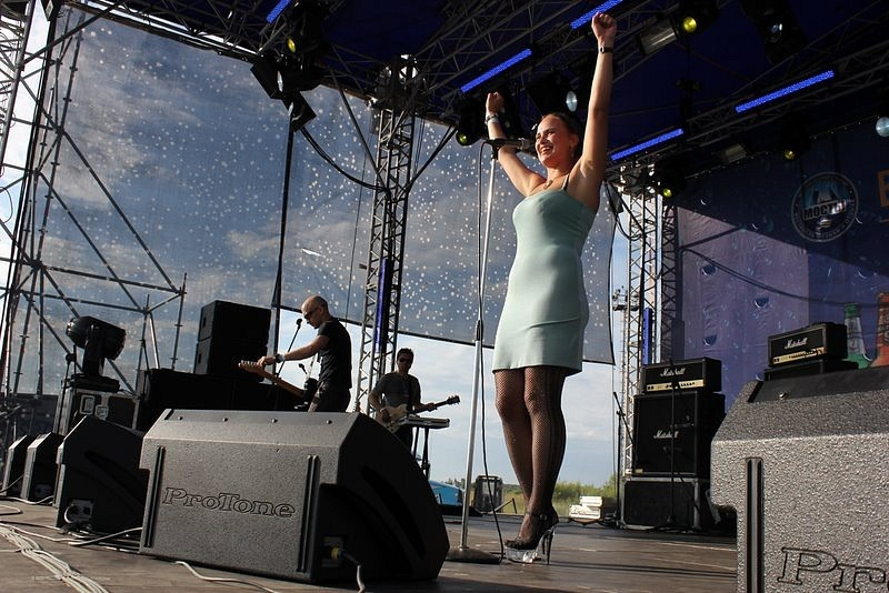 «Проверено» на фестивале «Мосты» 16 июля 2011 года.